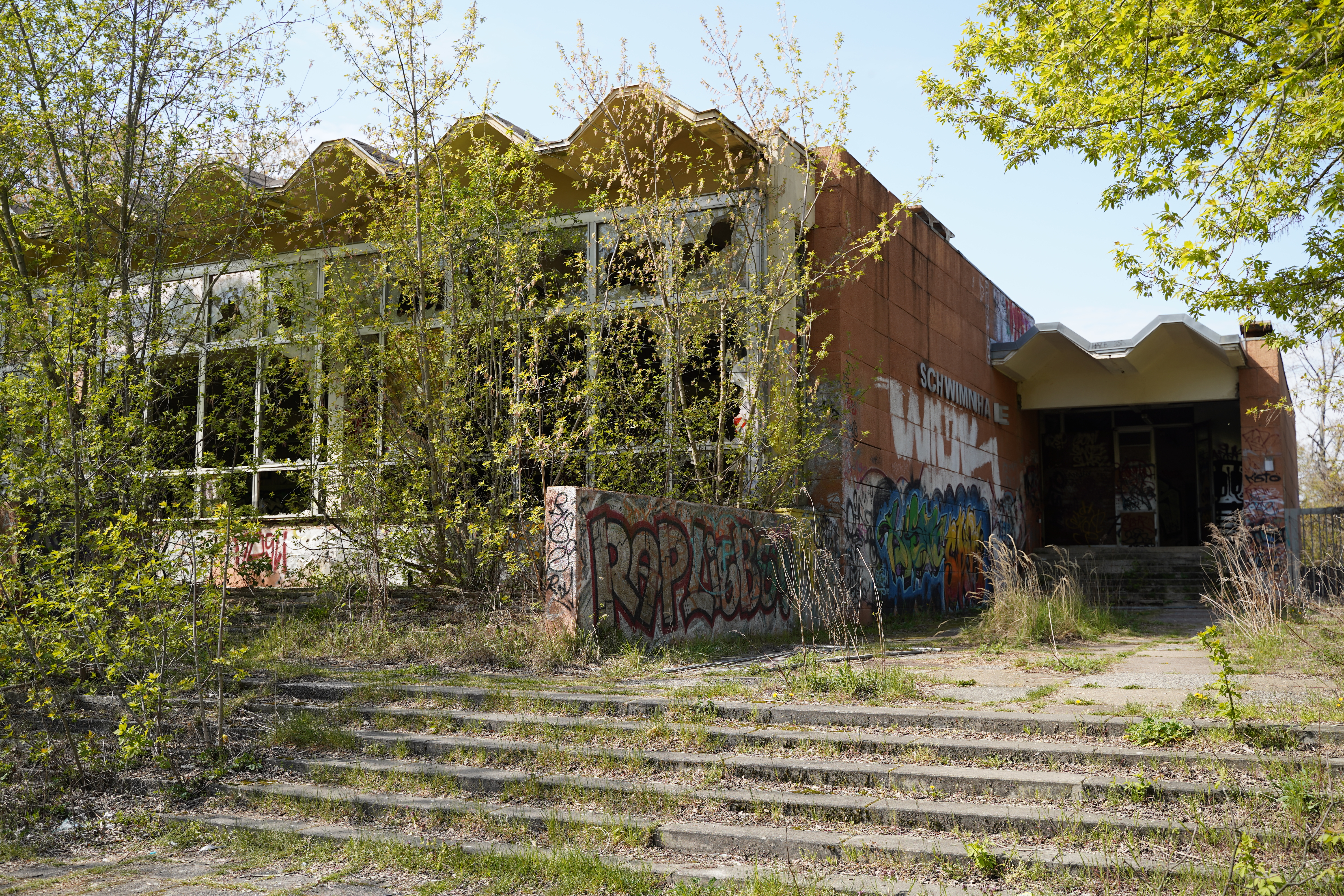 Schwimmhalle Pankow side view